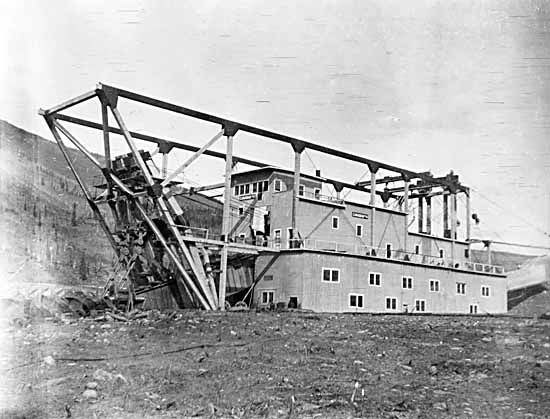 Side view of Canadian number 4, Yukon, Canada.